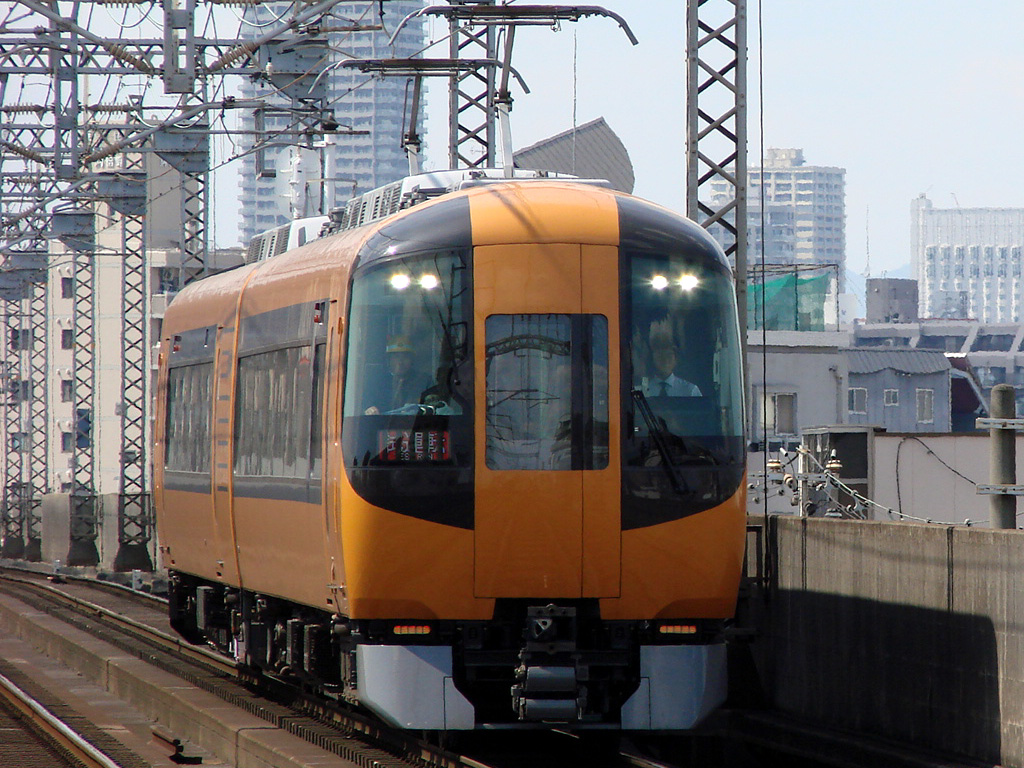 A Kintetsu 16600 series 2-car EMU on a test run on the Minami-Osaka Line